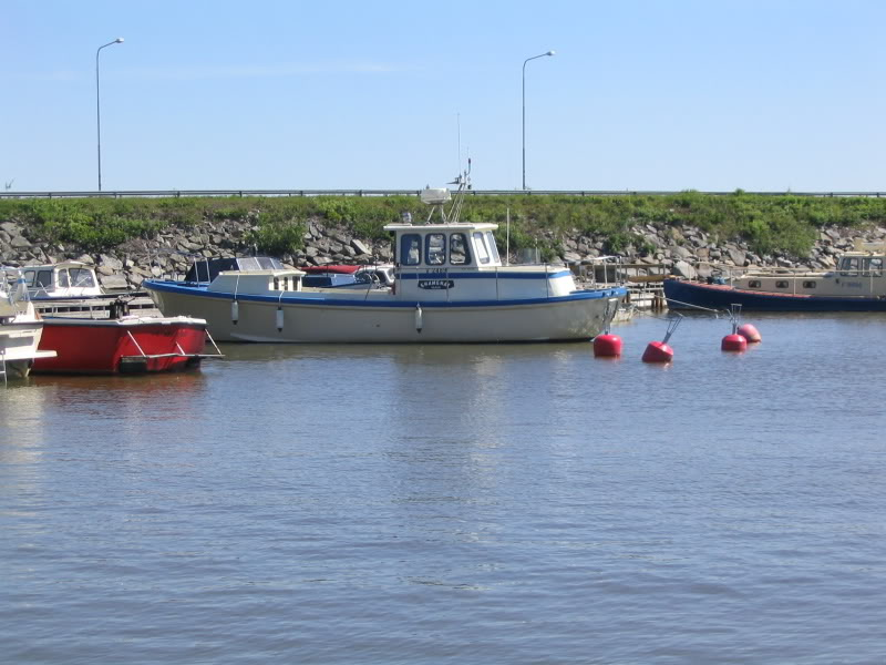 Ks1030